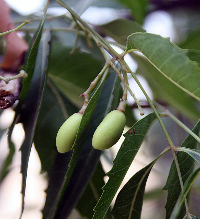 Unripe Neem Fruits which turn yellow. Taken in Chennai